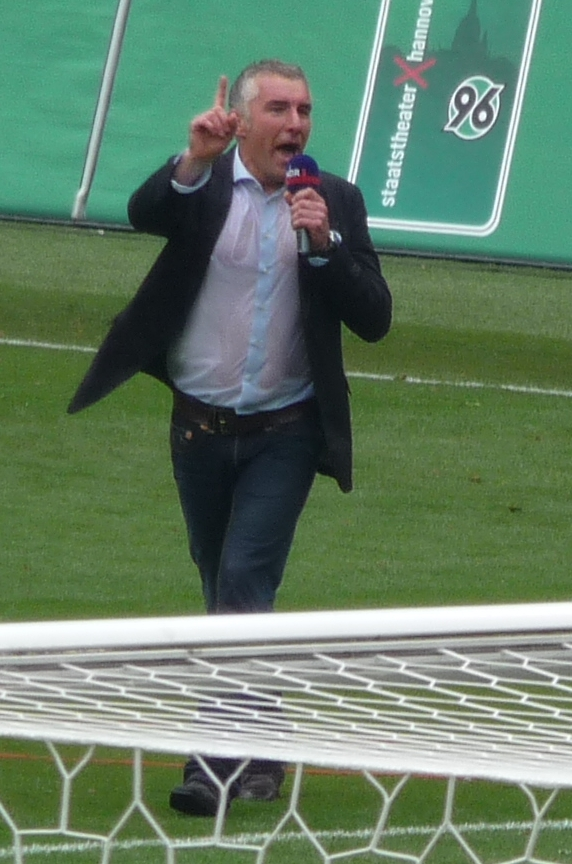 Coach Mirko Slomka celebrates the season 2010/11 of Hanover 96